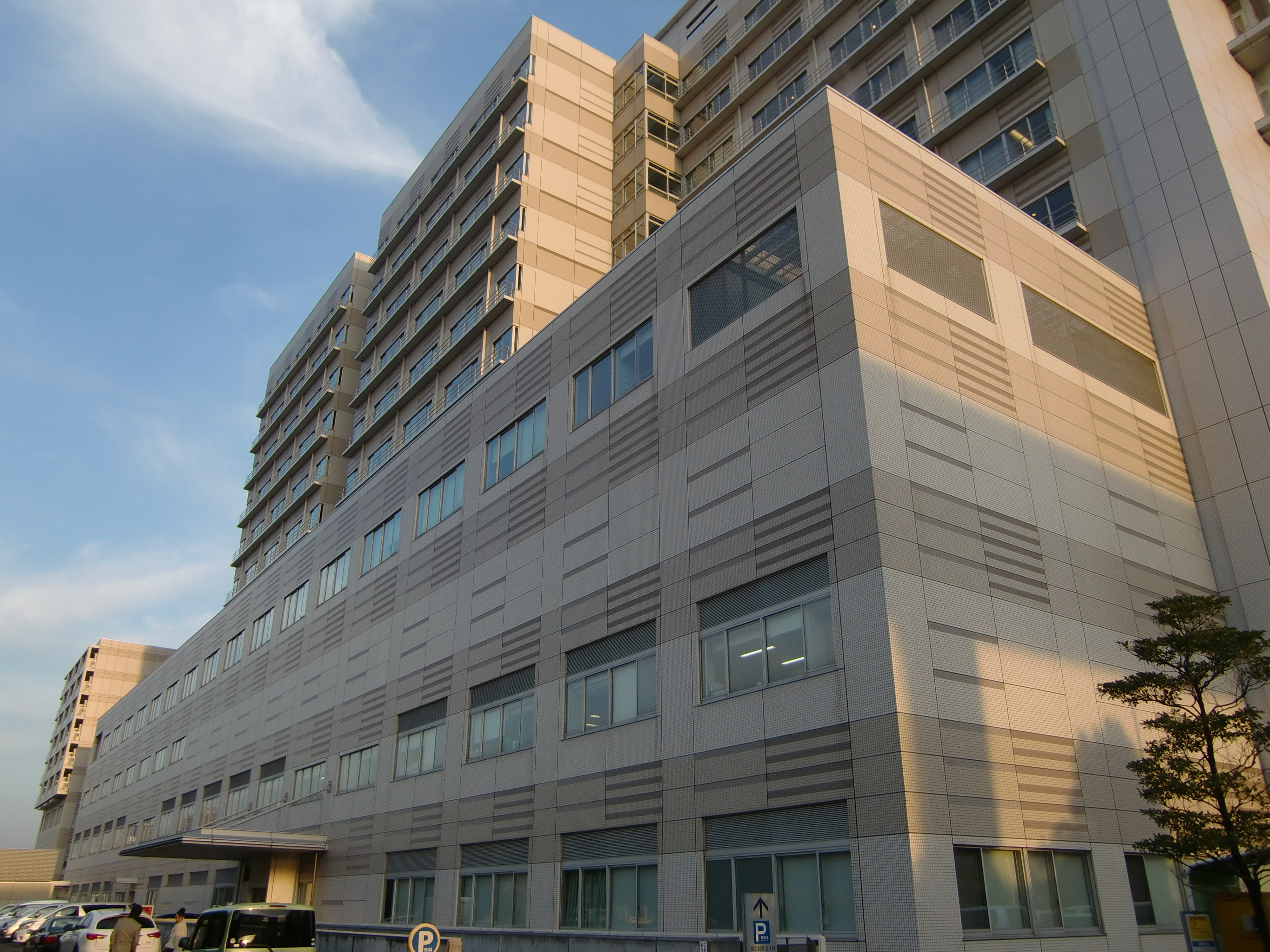 The Cancer Institute Hospital of JFCR